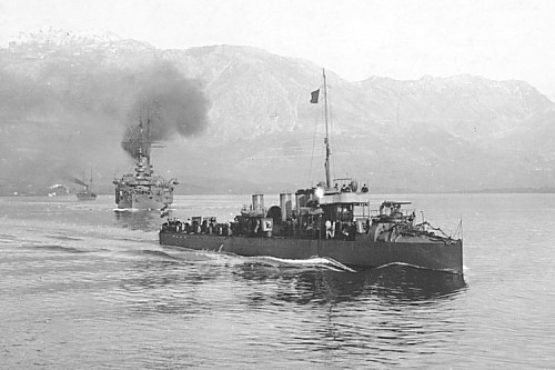 Austro-Hungarian destroyer (SMS Ulan) - copyright expired